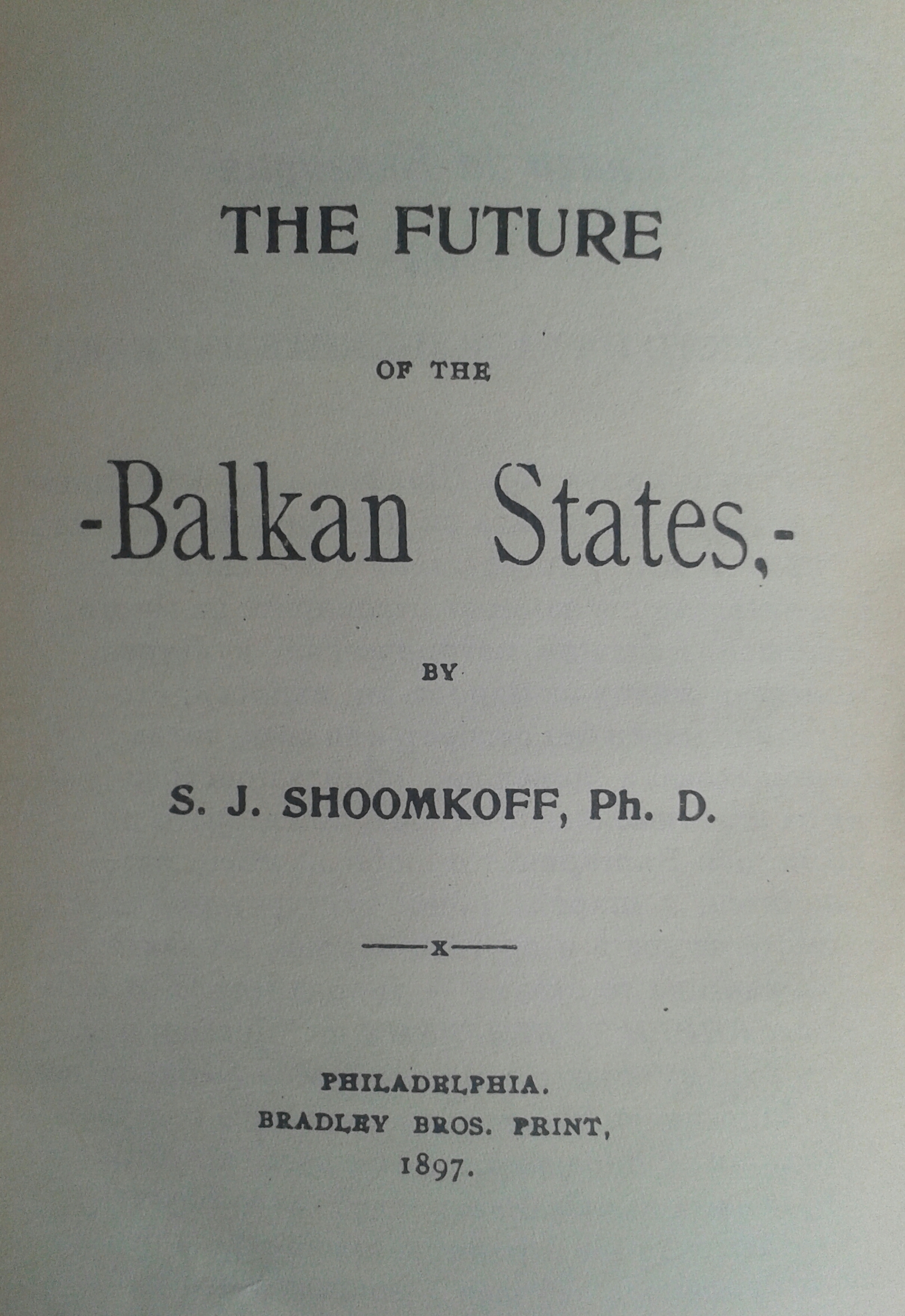 Stanislav Shoomkoff The future of the Balkan states Cover 1897